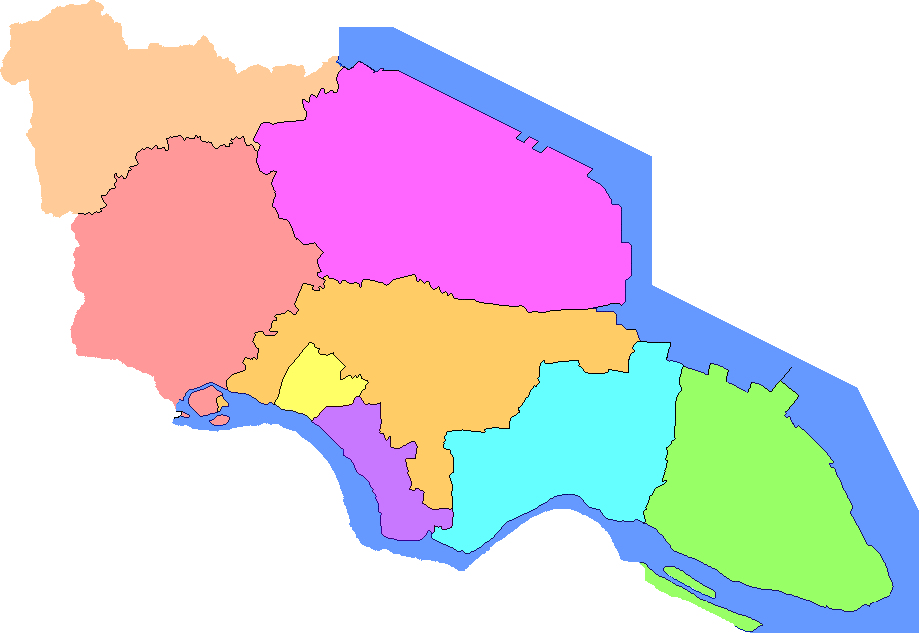 Subdivision of Nantong